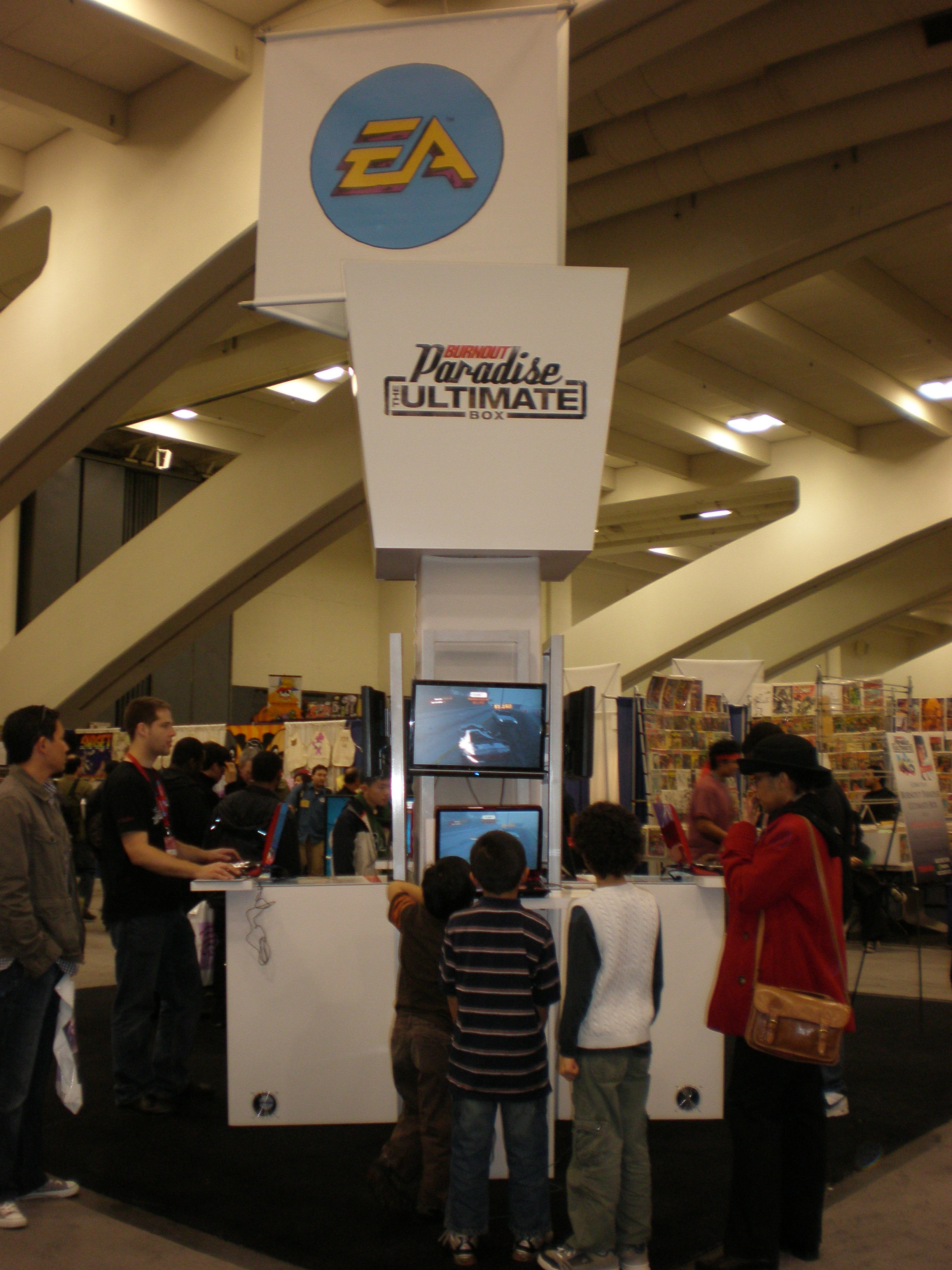 Electronic Arts gaming stations at WonderCon 2009.